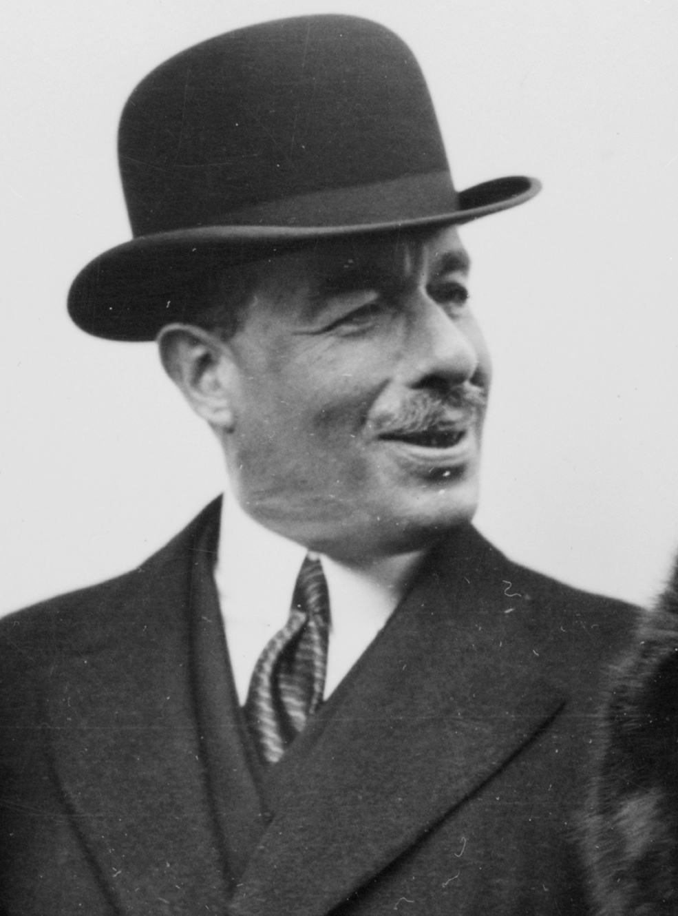 Sir Jos. Duveen, art authority. Photo is significantly cropped from original.